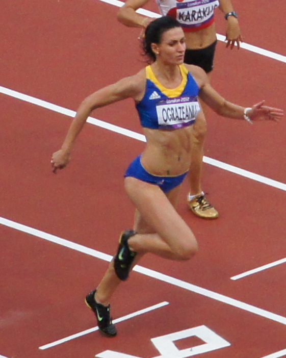 London 2012 Olympics Athletics